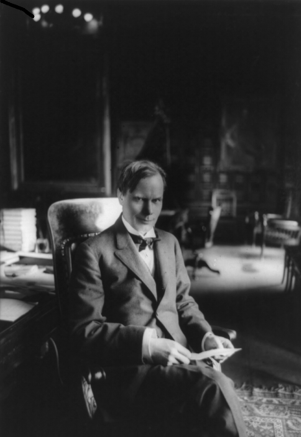 Wiliam Sulzer, three-quarter length portrait, seated at desk, facing right